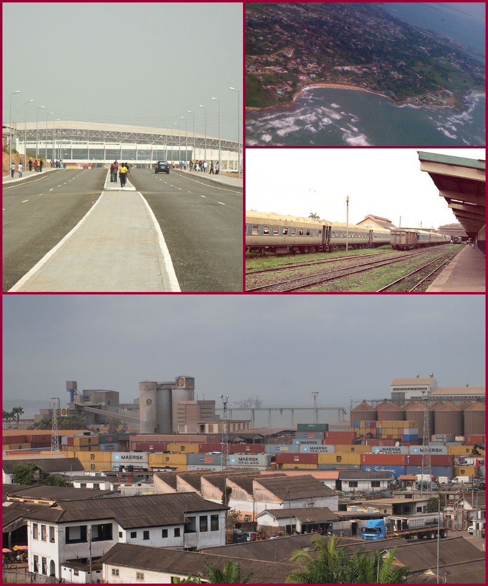 View of Street in Sekondi-Takoradi.